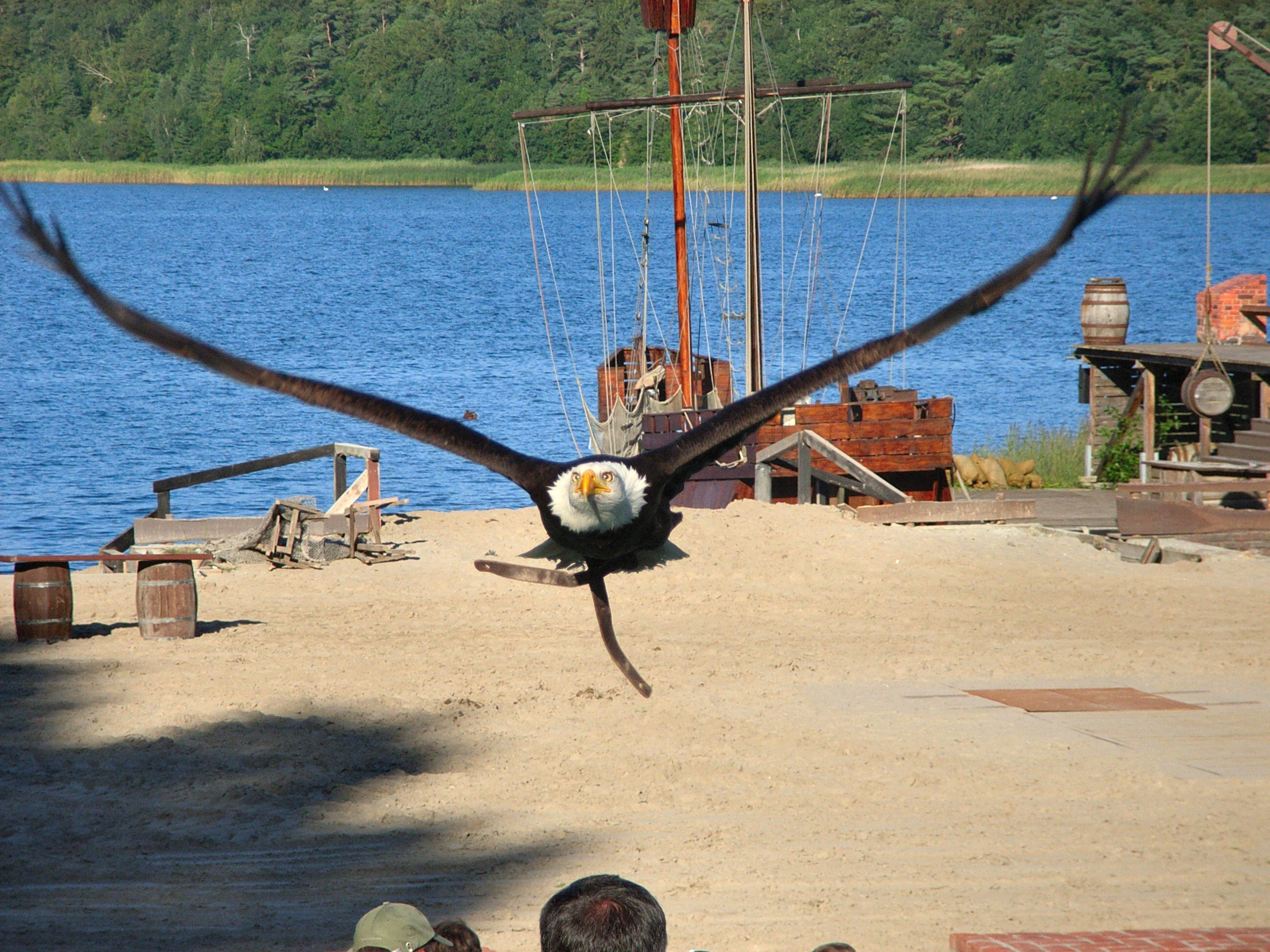 Bald Eagle (Haliaeetus leucocephalus) in the Preface “kings of air” with the Störtebeker festival in Ralswiek on the island Rügen